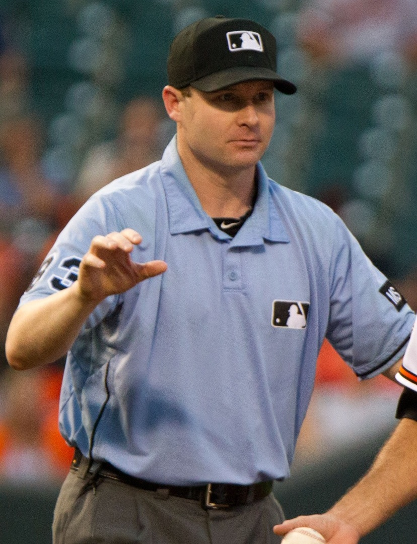 MLB umpire Mike Estabrook - Indians at Orioles June 28, 2012